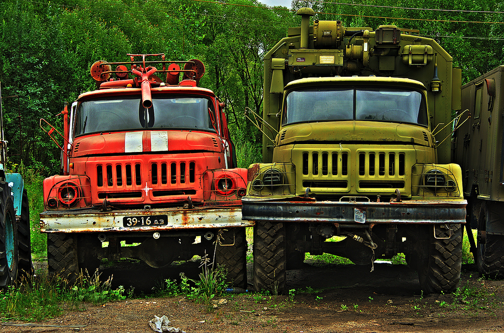 Two Zil-131 trucks.